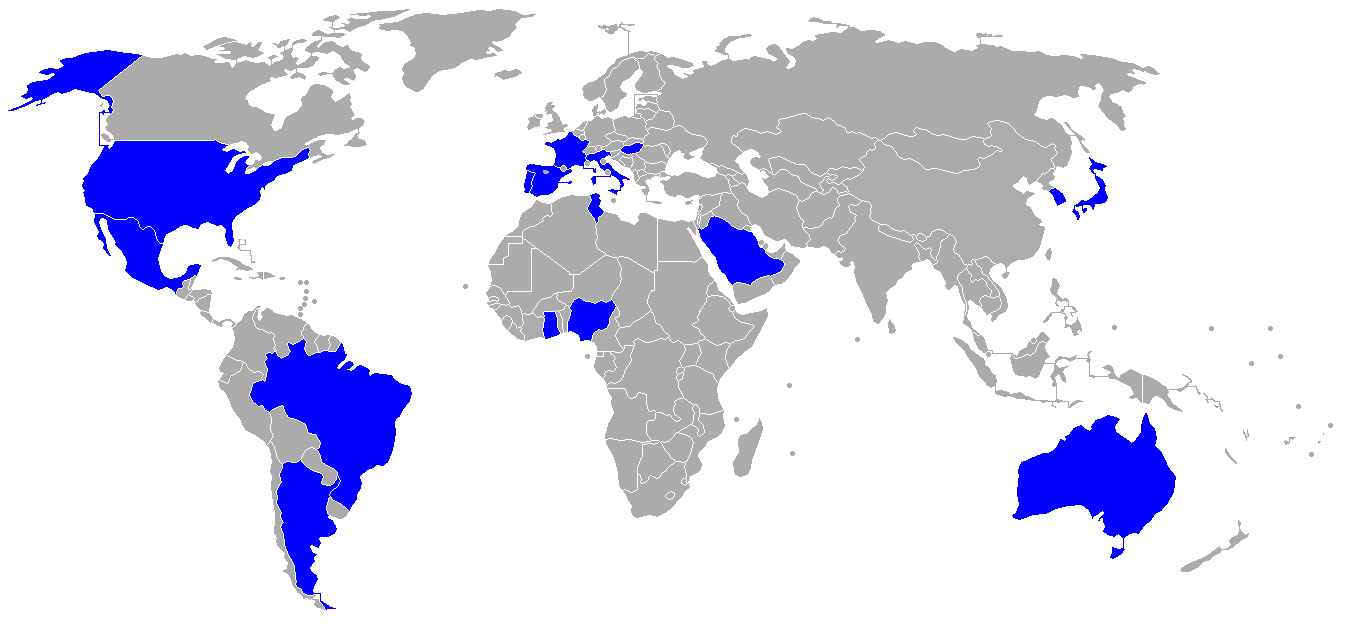 Map, showing countries which participate in men's football at the 1996 Summer Olympics